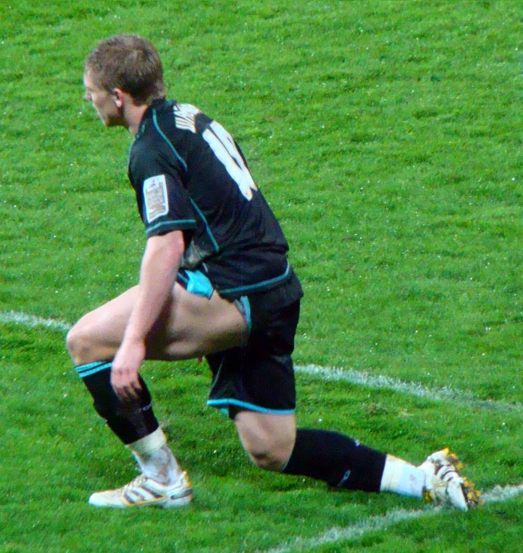 30/03/10 Cardiff V Leicester, Championship, Cardiff City Stadium, Cardiff, Wales